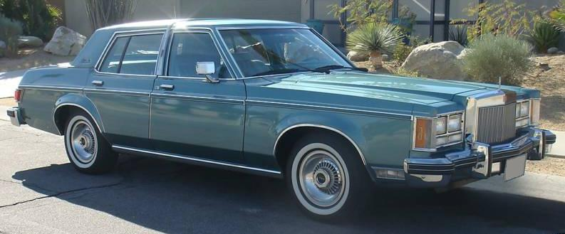 1980 Lincoln Versailles sedan